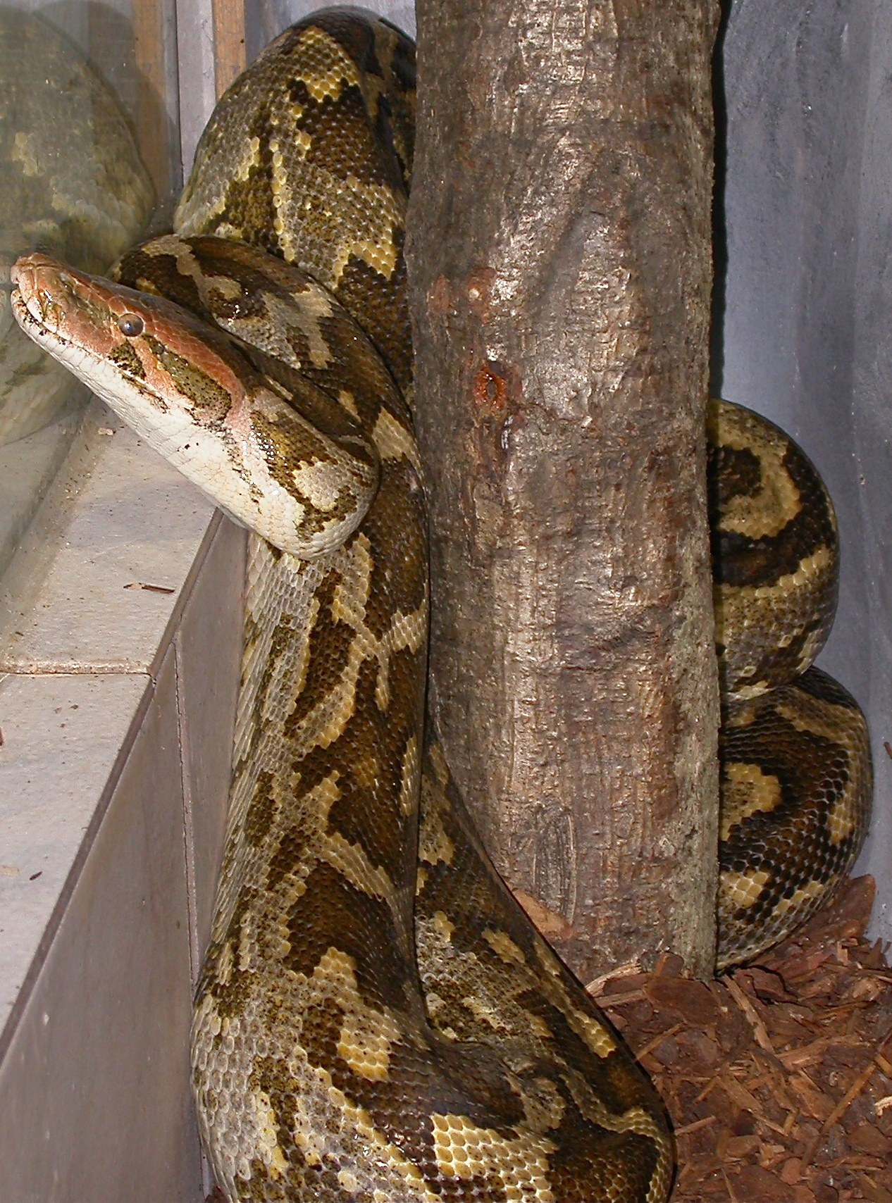 adult light phase Asian Rock Python from Sri Lanka (Python molurus pimbura) in captivity